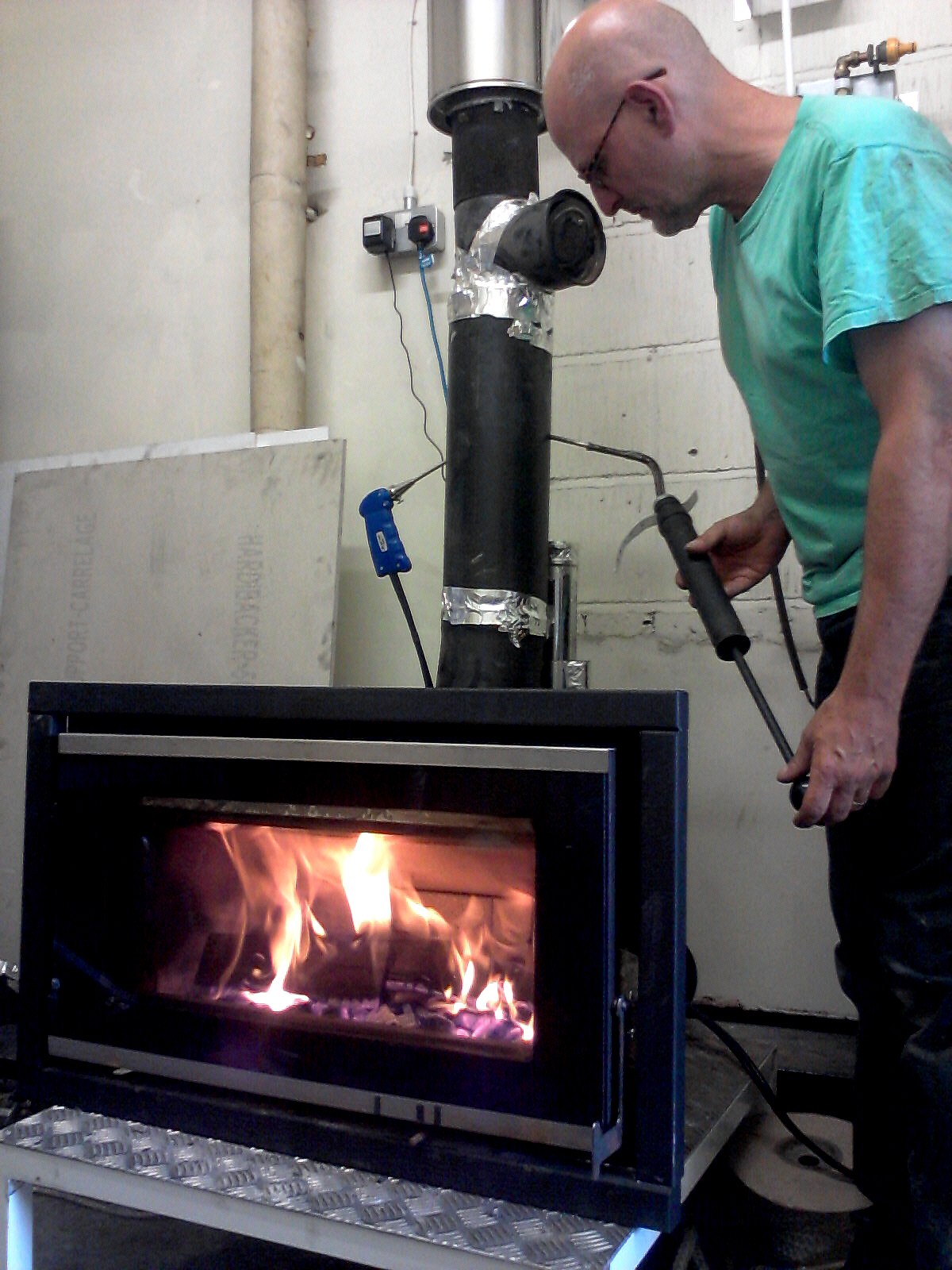 Technician (Glyn Hughes) using a smoke pump of American Standard ASTM D2156-65 type to measure emissions from a stove ('Panorama' stove by Portway) at the premises of CSM Chorley Ltd, Lancashire, England